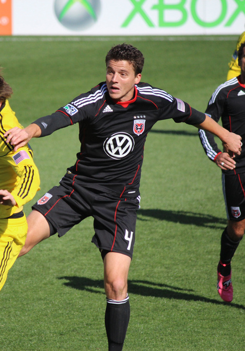 Columbus Crew midfielder, Eddie Gaven, competes for a header against D.C. United defender, Marc Burch, during a regular season match at Columbus Crew Stadium on October 2, 2011 that ended in a 2-1 loss for United. This is a crop of Gaven-burch.jpg